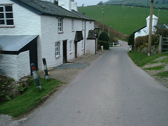 Glascwm Village.